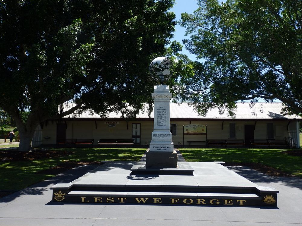 650026 cenotaph east side, railway station building behind